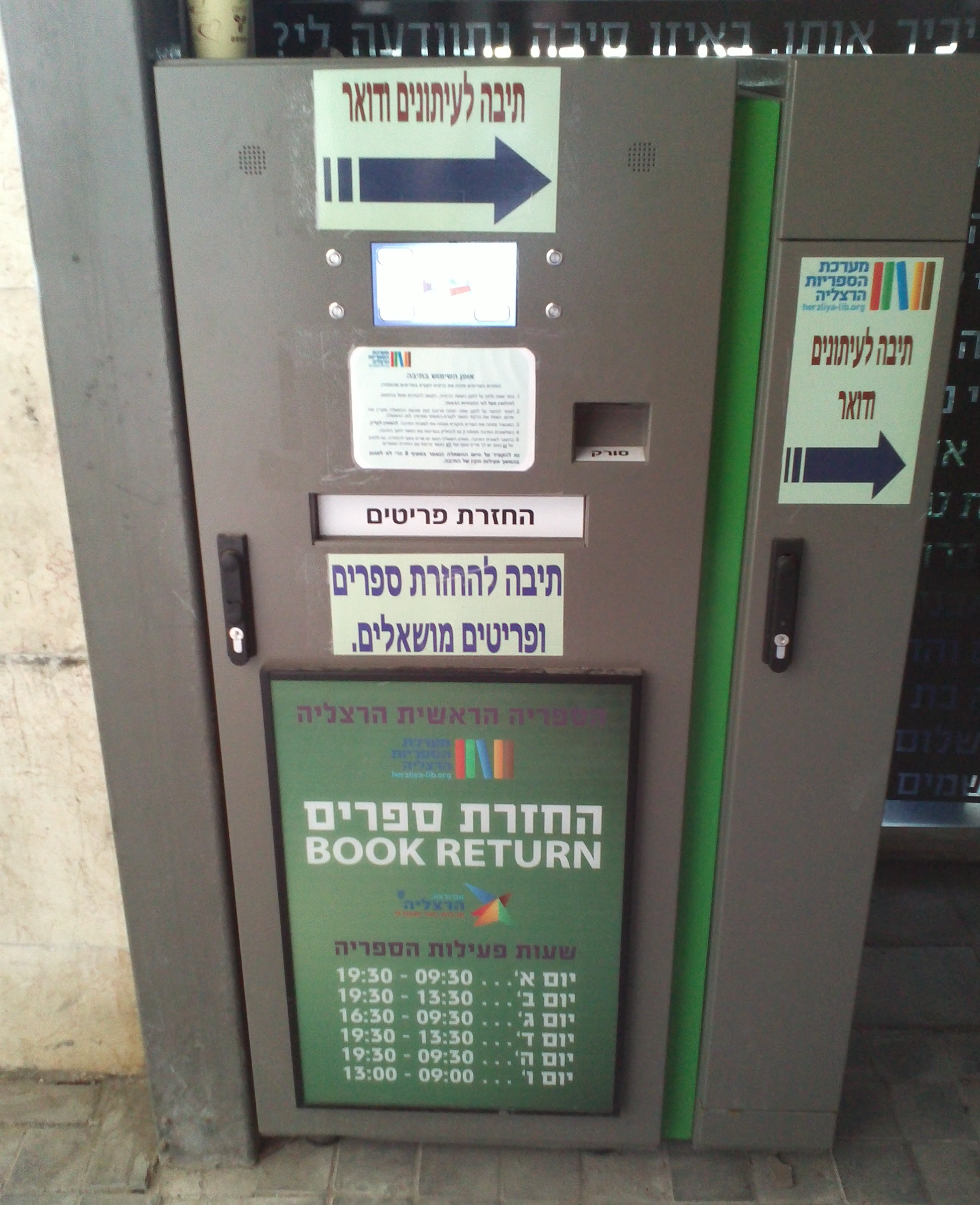 Library book drop box, Herzliya, Israel